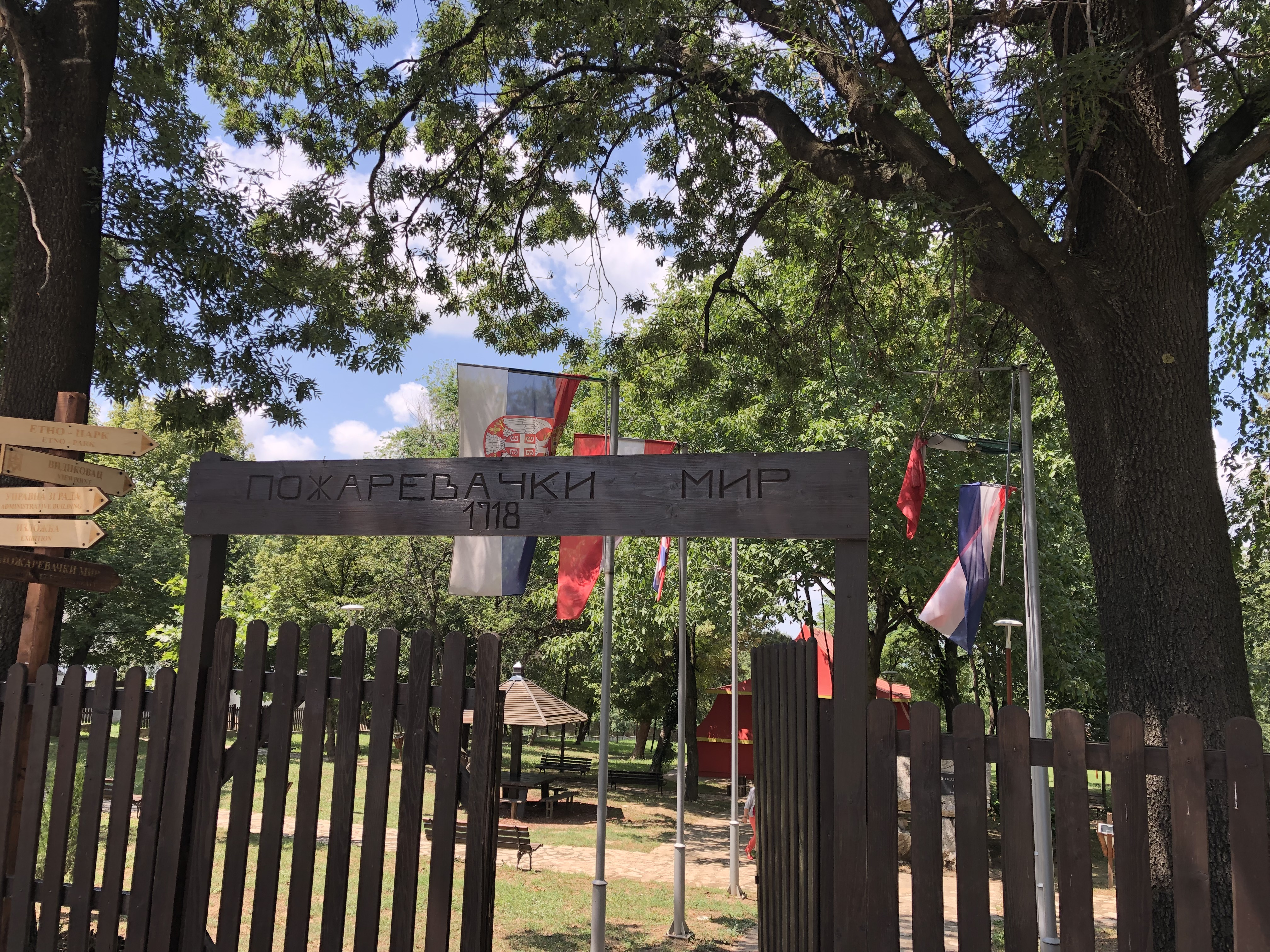 Entrance to the Etno Park Tulba in Požarevac that takes you to the exhibition on the Treaty of Passarowitz. Srpski (latinica): Ulaz u Etno kuću Tulba u Požarevcu koji vodi do izložbe o Požarevačkom miru.